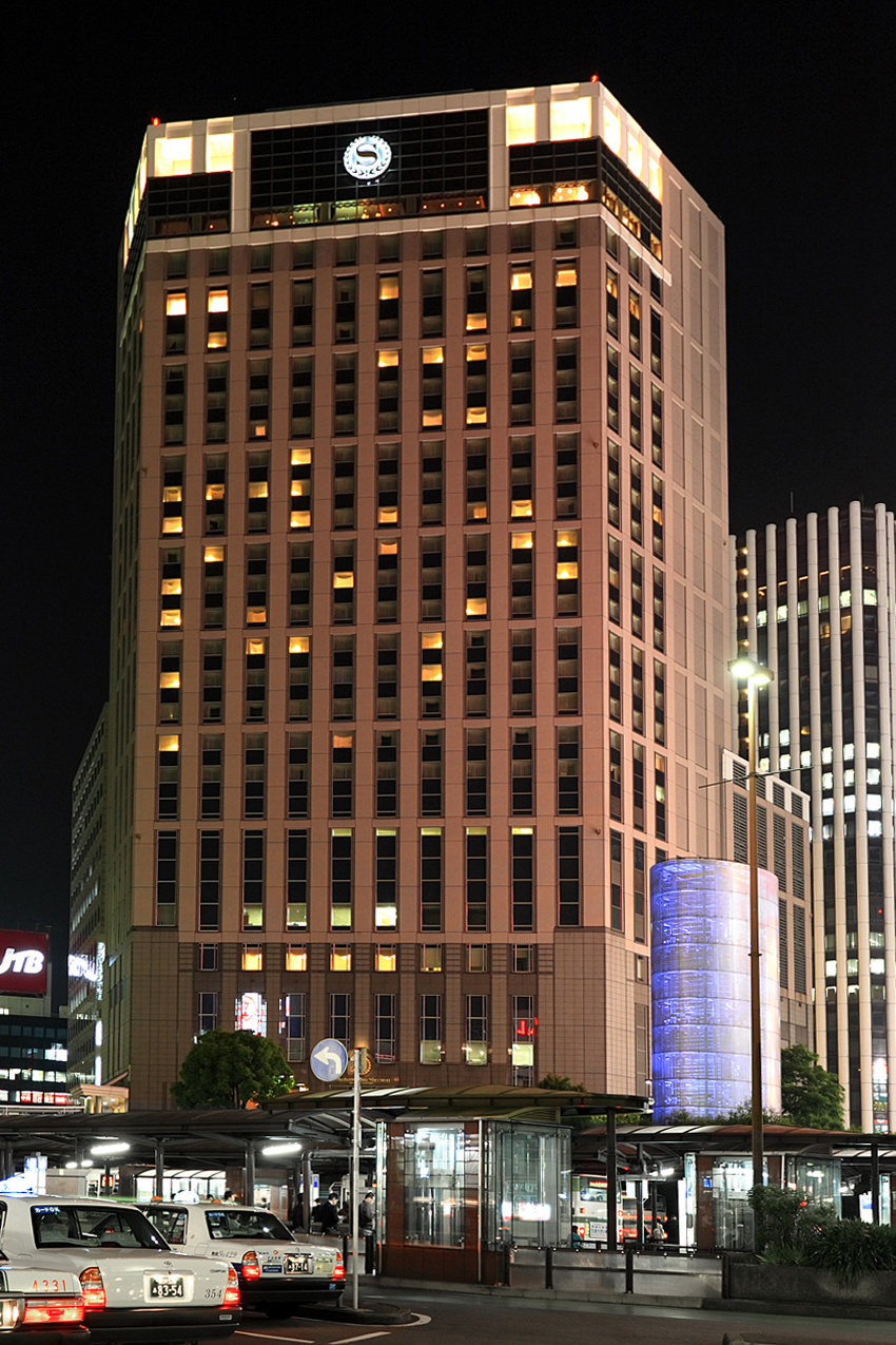 Yokohama Bay Sheraton Hotel & Towers